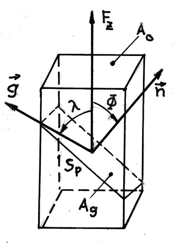 Sketch to the analysis of the azimutal distribution of glide traces